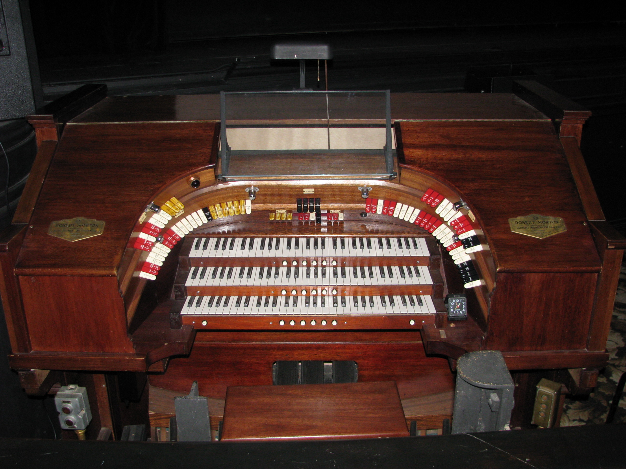 3-Manual, 8-Rank, Robert-Morton Organ.